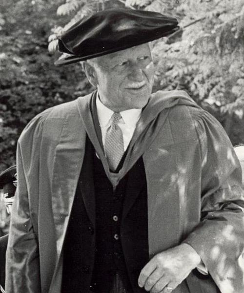 Governor General Roland Michener at Alma College graduation ceremonies, 1972